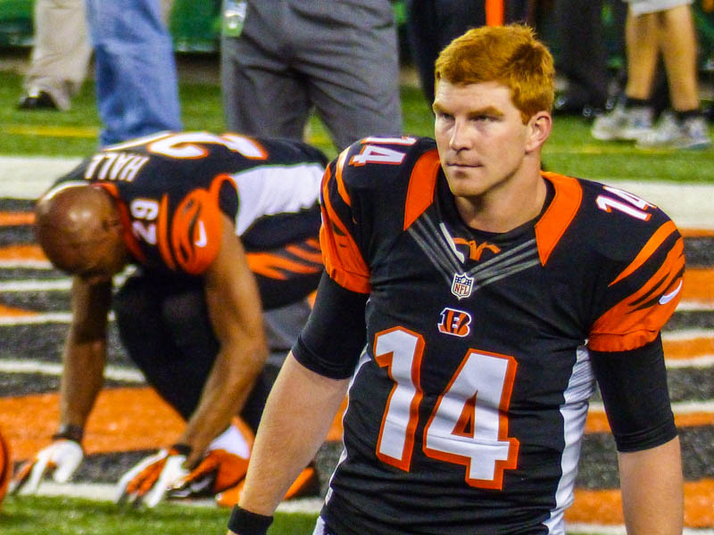 Warming up before Monday Night Football game vs the Pittsburgh Steelers, September 17, 2013